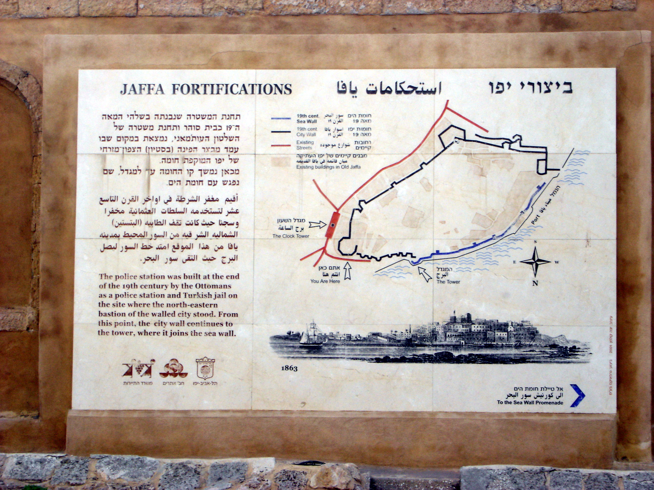 A description of Jaffa's fortifications